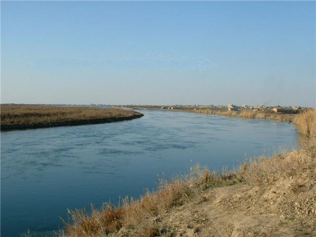 Photo of the Euphrates river seen from the city of Abu Kamal.